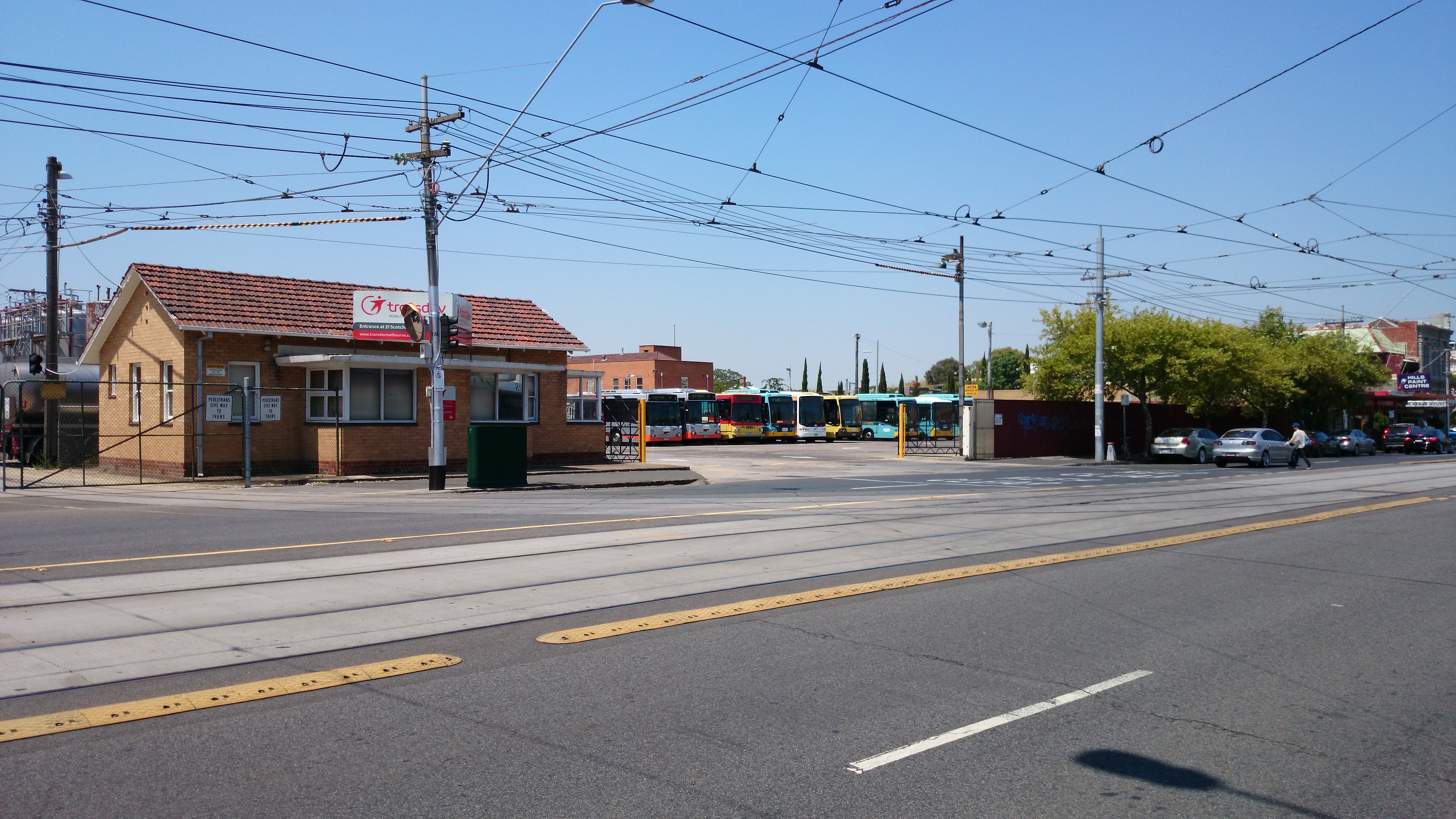 Transdev bus depot in Fitzroy North viewed from Nicholson Street.